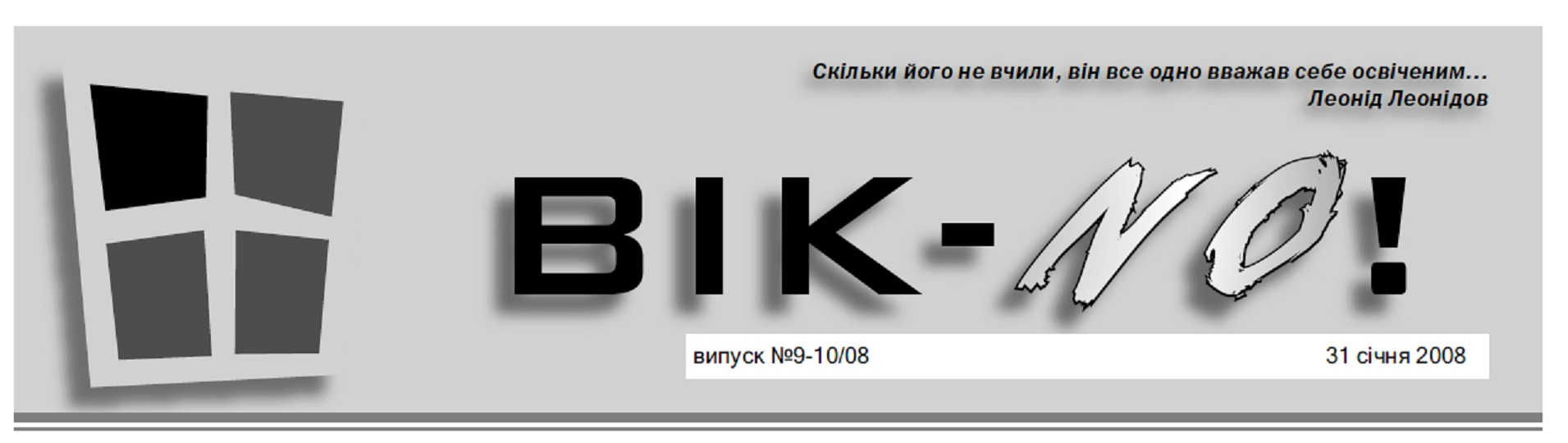 Vik-no-2007 (Monthly publication of Poltava Universiity